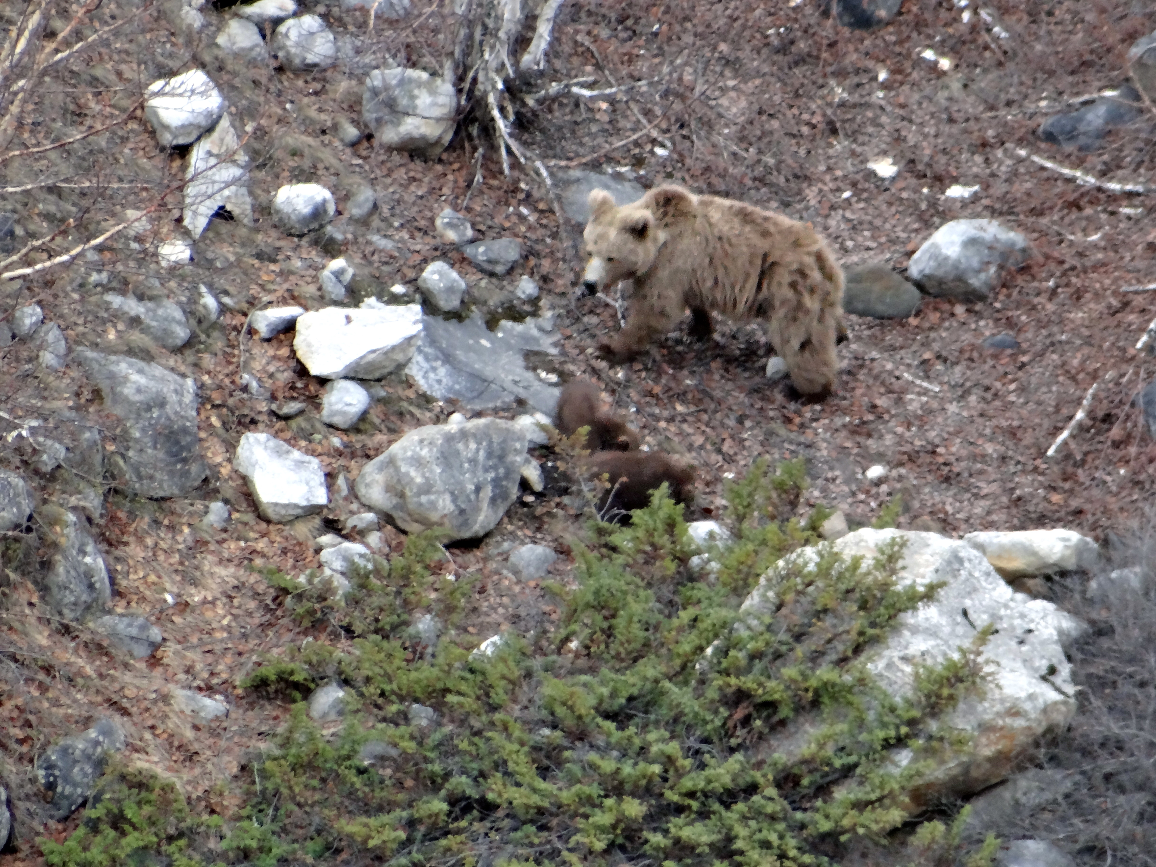 HImalayan Brown Bear With cubs on the trek from Gangotri to Gaumukh in Uttarakhand, India.